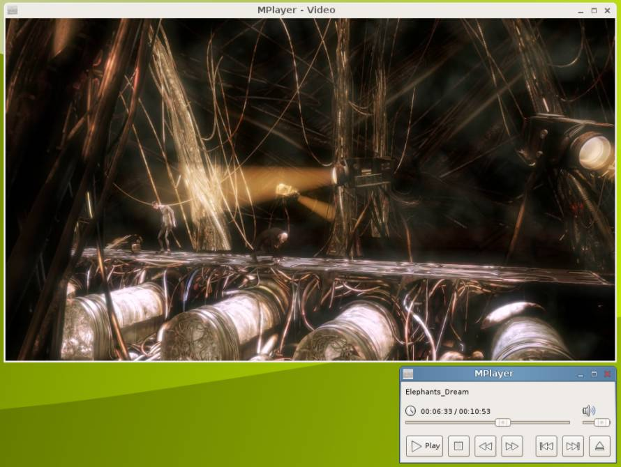 Screenshot of the GNU/Linux version of MPlayer (with GMPlayer GUI) running on top of the GNOME Desktop. The movie being played is Elephants Dream.